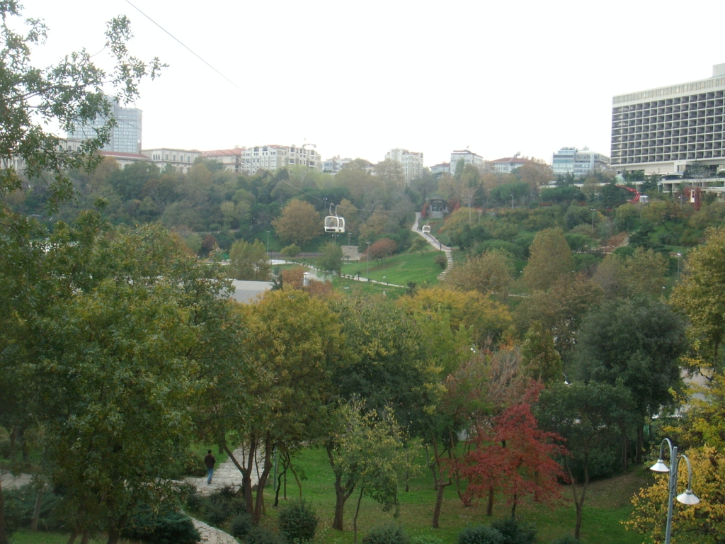 Maçka Park in Istanbul, Turkey.